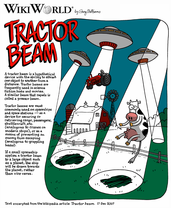 WikiWorld comic based on the article "Tractor beam"